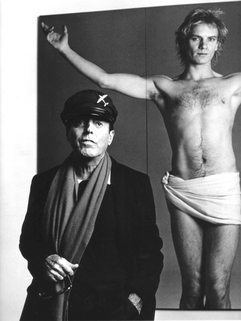 Photographer Francesco Scavullo with his 1984 portrait of Sting, at the G. Ray Hawkins Gallery, West Hollywood, 1980s. Photo by Chris Gulker